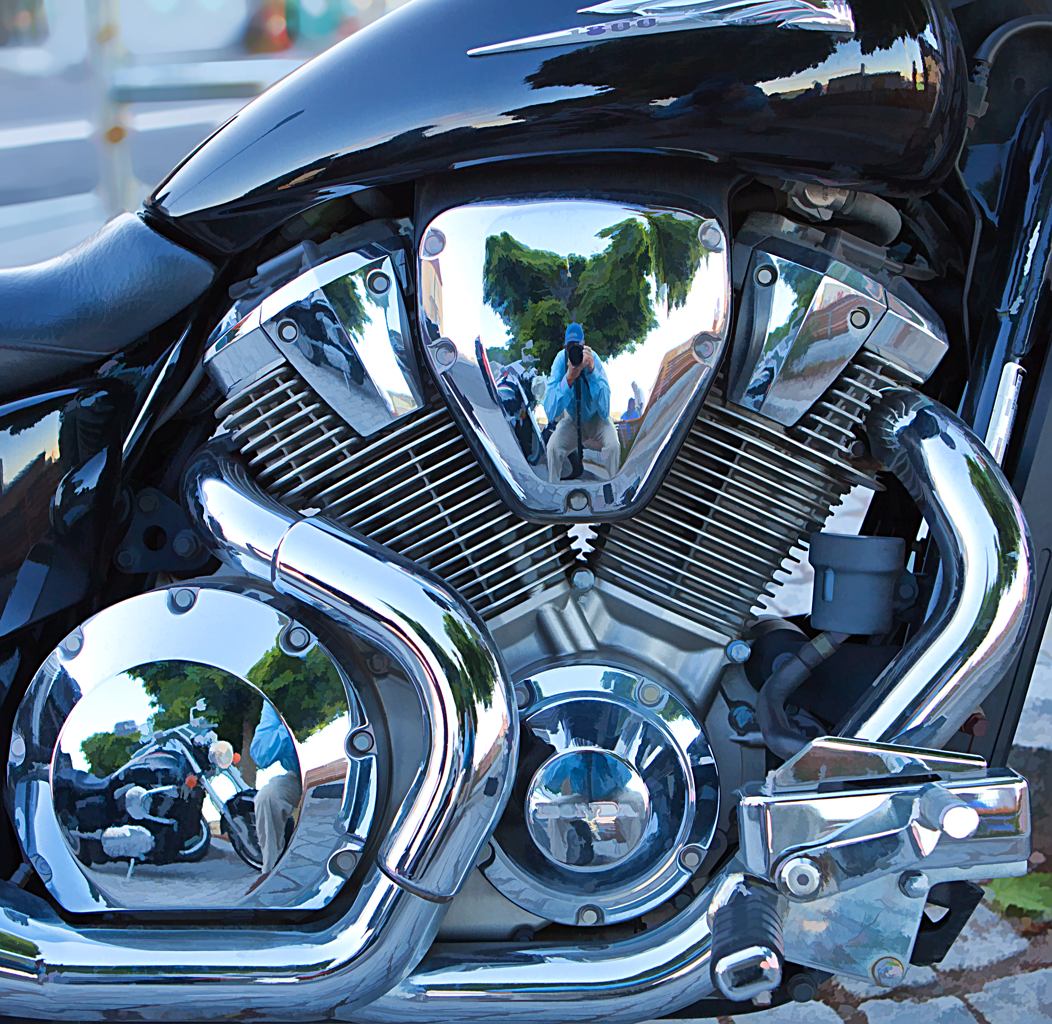 Honda 1800 cc motorcycle engine. Photo Vaxholm July 2010